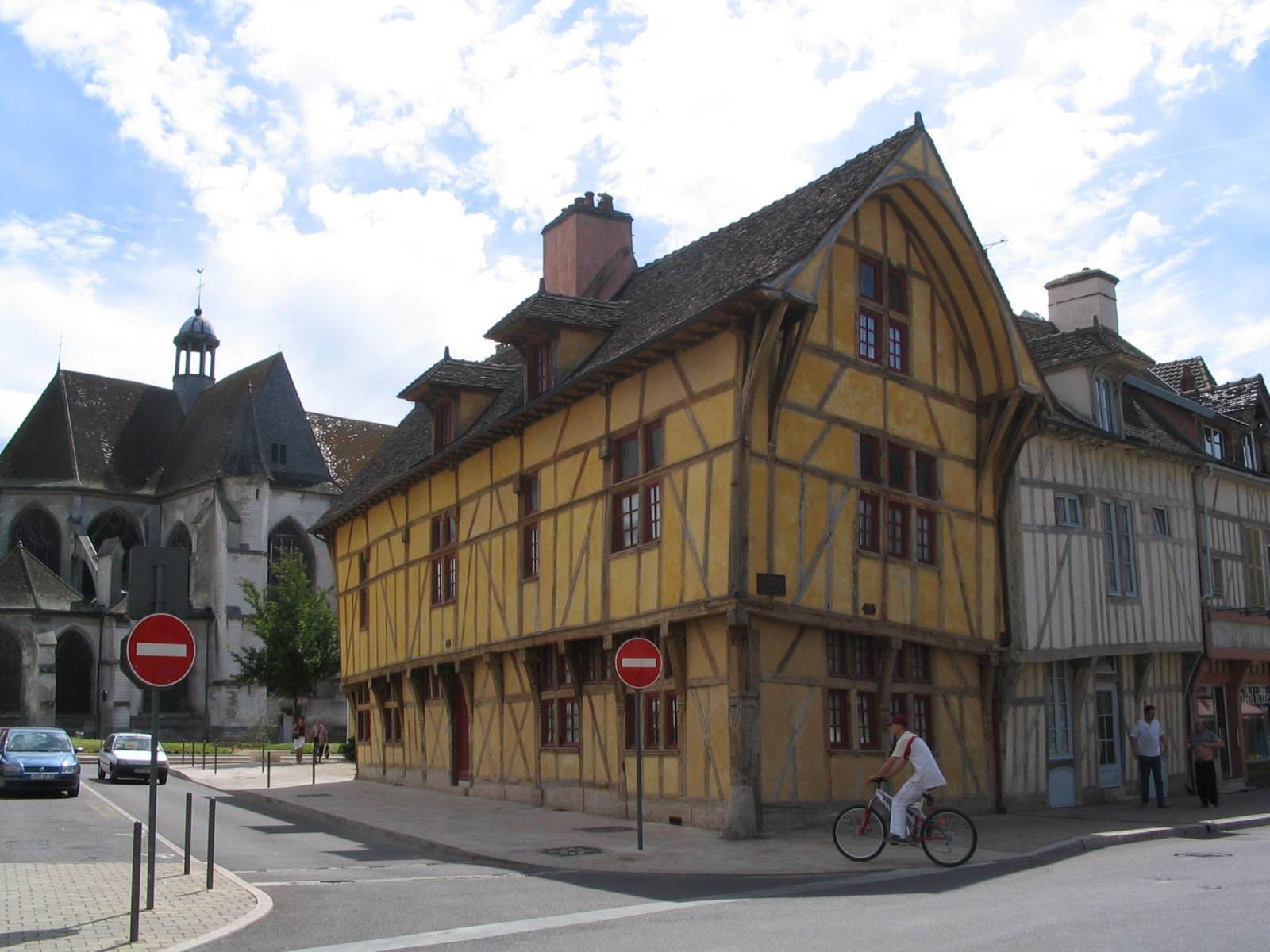 Old houses in Troyes, France : In back St Nizier church.